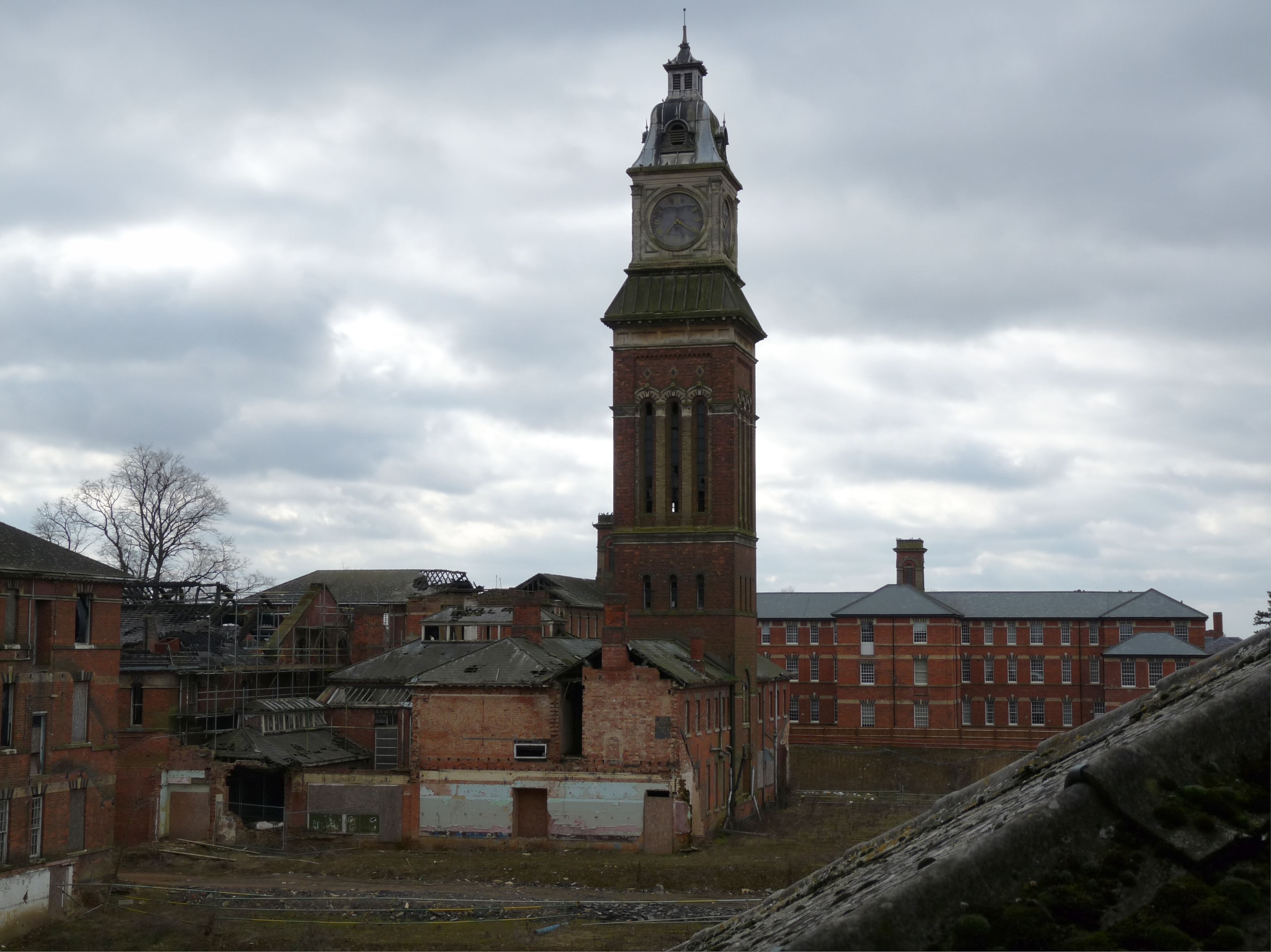 St Crispin's Asylum clock tower